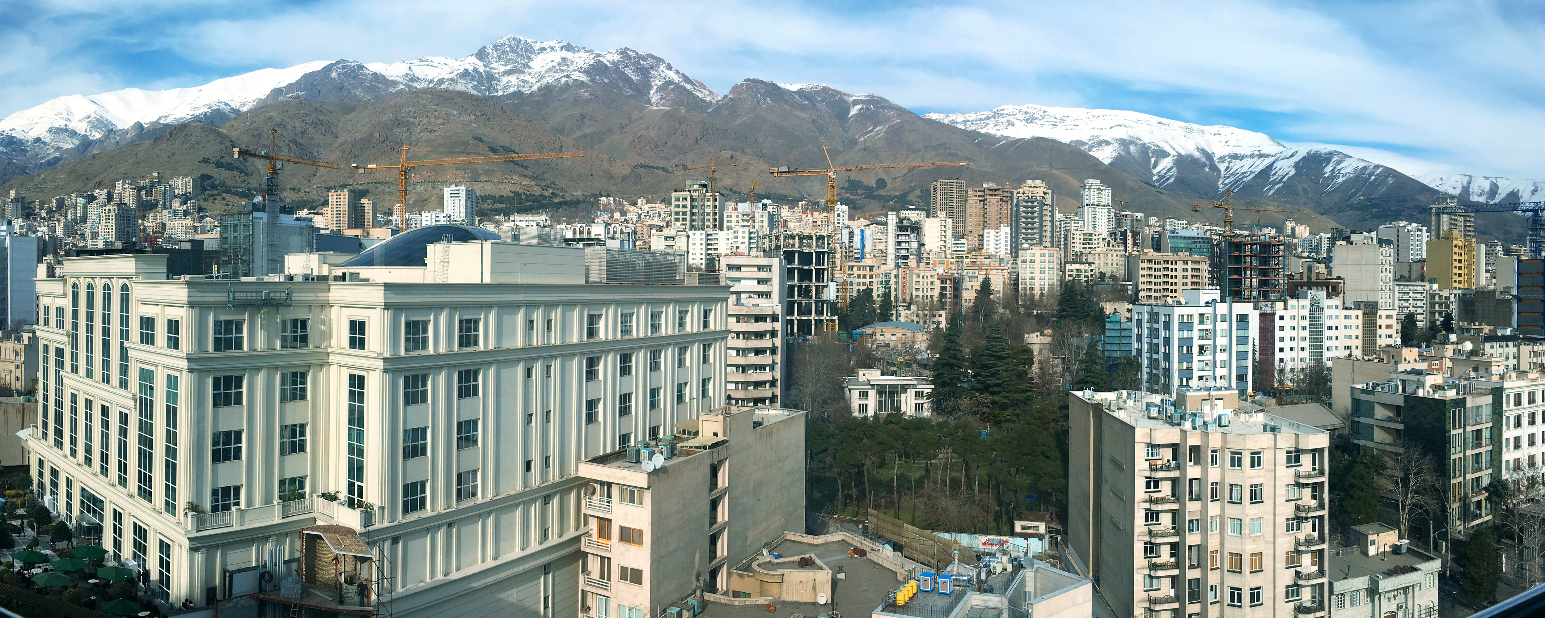 Photo from AVAN Building, Andarzgou Blvd. by Safa Daneshvar, Panorama is made by 3 photos by iPhone SE